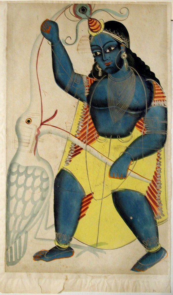 Series Title: Kalighat Album Suite Name: Kalighat Album Creation Date: ca. 1880 Display Dimensions: 17 29/32 in. x 10 15/16 in. (45.5 cm x 27.8 cm) Credit Line: Edwin Binney 3rd Collection Accession Number: 1990.1437 Collection: The San Diego Museum of Art